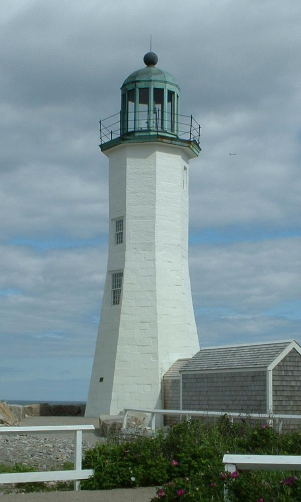 Scituate Lighthouse, located on Scituate Harbor, Scituate, Massachusetts.